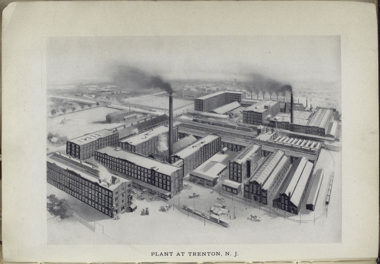 J.L. Mott plant at Trenton New Jersey